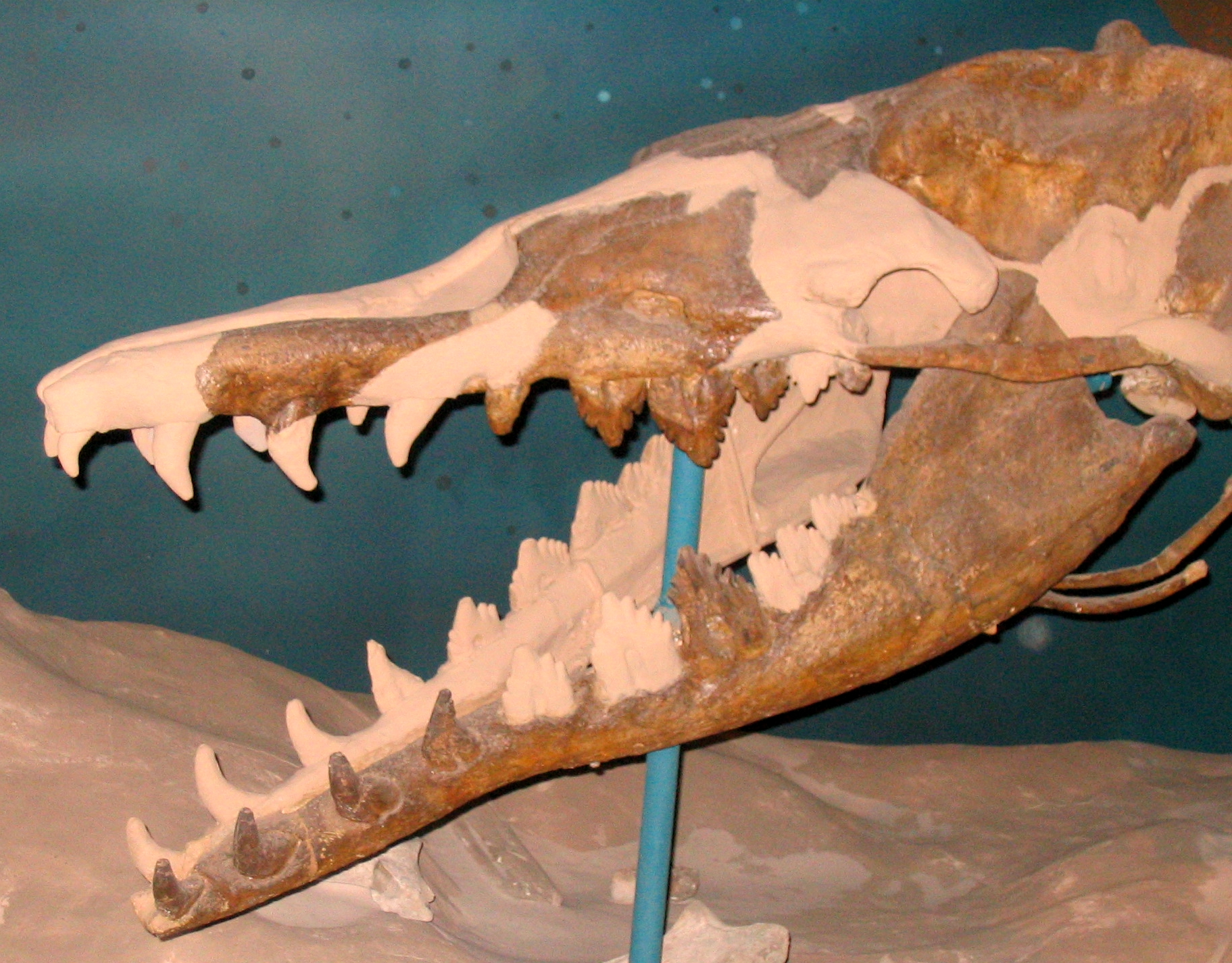 Basilosaurus cetoides skeleton at the Smithsonian museum of Natural History